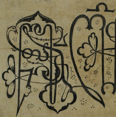 Charter of George XII of Georgia